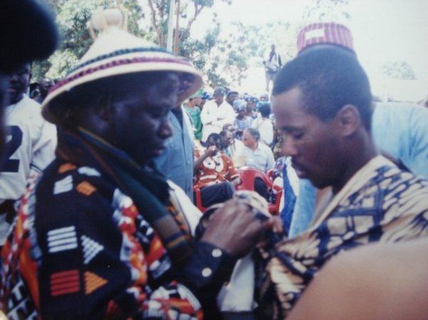 Sampson Nanton is initiated in Jola Tribe in The Gambia, West Africa in 2000